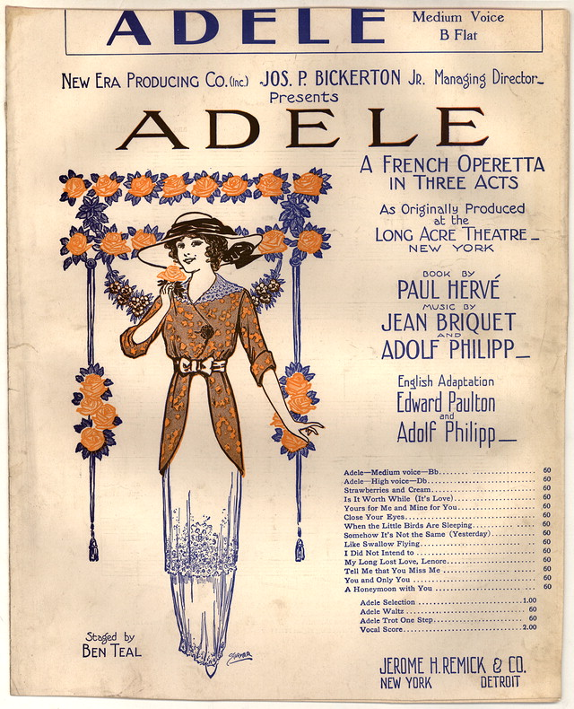 Sheet music to Adele, 1913. THIS IS A PUBLIC DOMAIN IMAGE CREATED IN 1913.